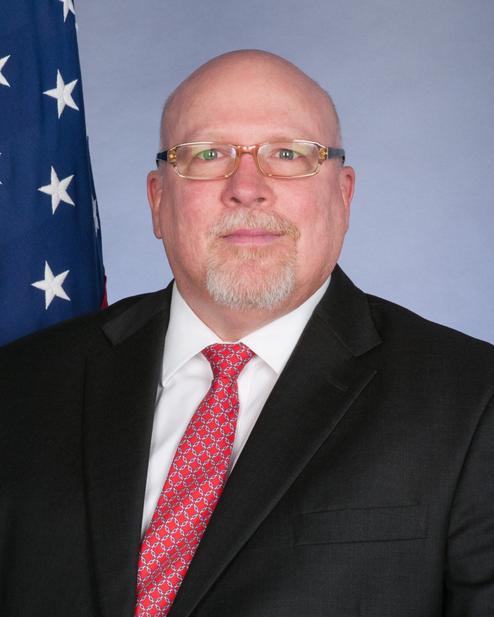 James D. Melville, Jr.